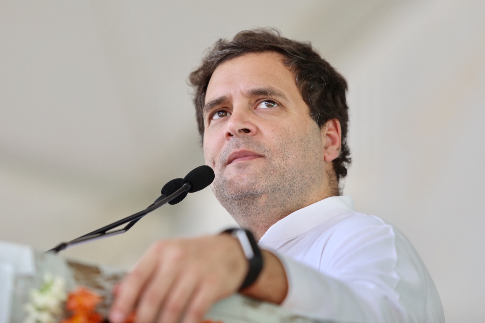 Rahul Gandhi, at Dias, in Karnataka